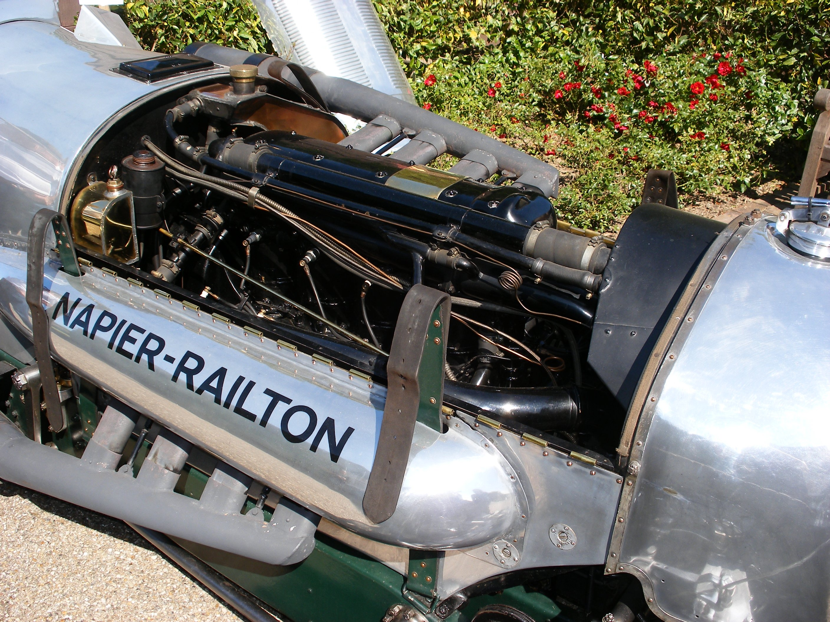 Napier-Railton - aero-engined car - Engine bay